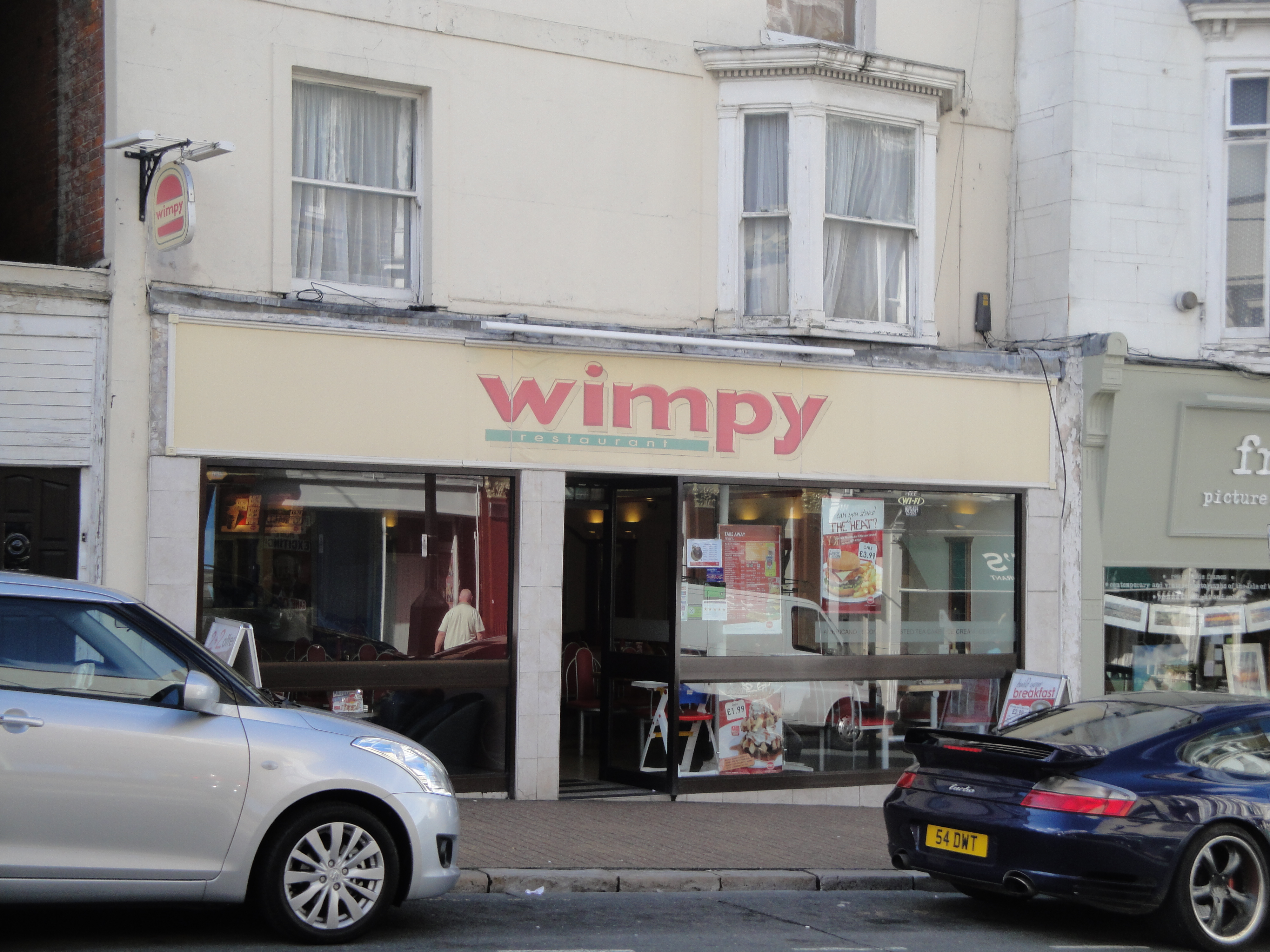 A Wimpy restaurant, on Union Street, Ryde, Isle of Wight. Despite the chain having shrunk considerably in recent years, Ryde is unusal in having two Wimpy restaurants, the other in North Walk.